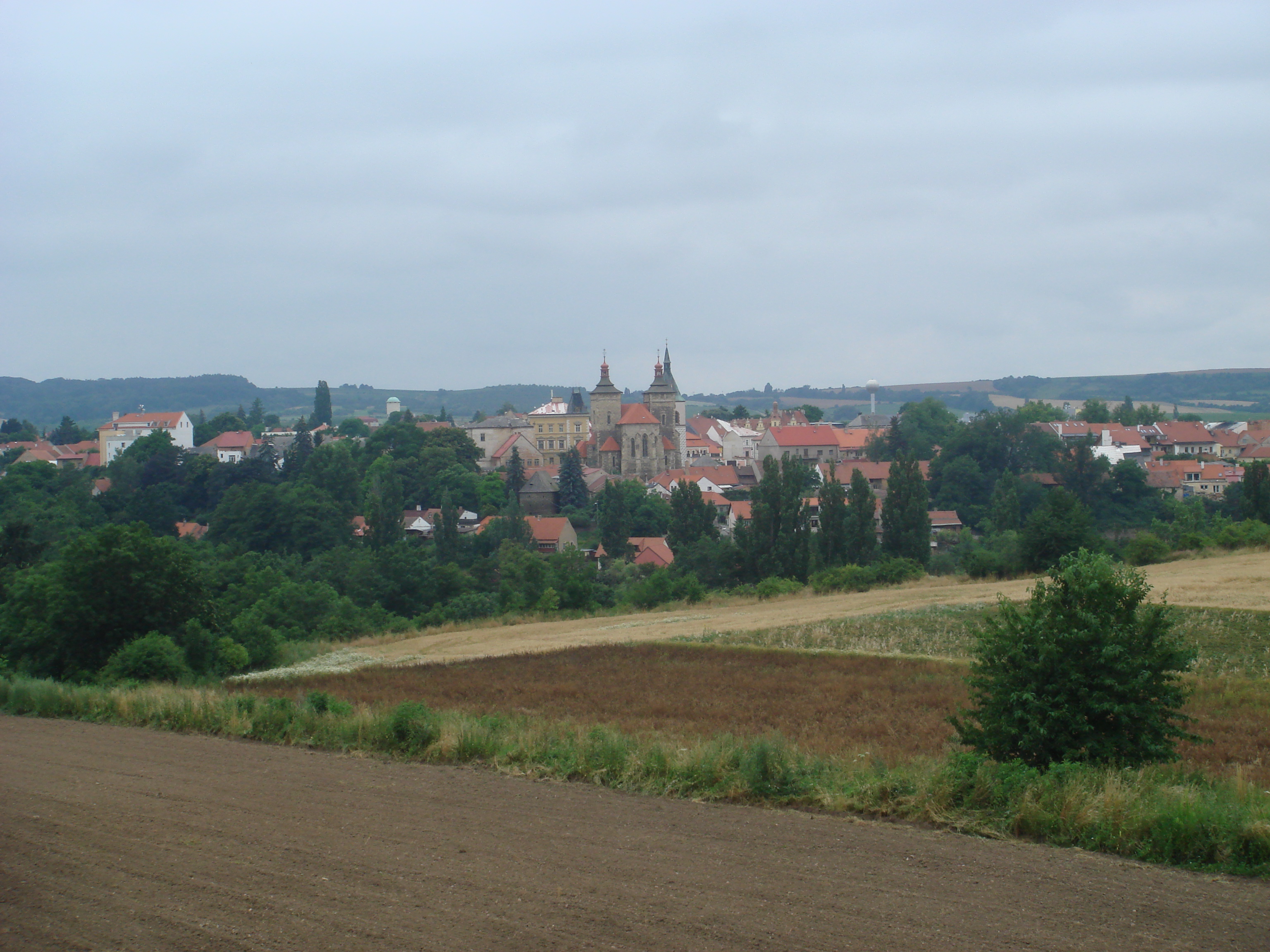 Kouřim as viewed from the Lechův kámen (Lech's stone) (Central Bohemian Region, Czech Republic).